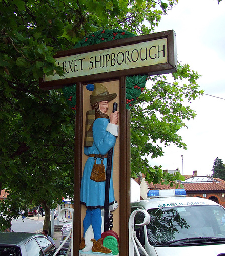 Swaffham. Town Sign in the fictional Norfolk town on Market Shipborough, as featured in ITV's Kingdom.